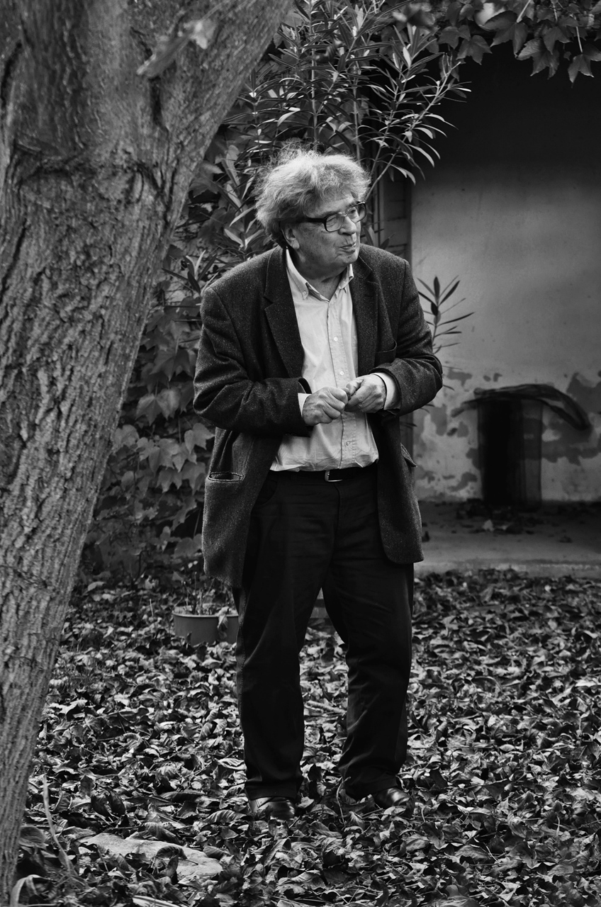 György Konrád Kossuth-prize winner Hungarian writer, essayist sociologist.